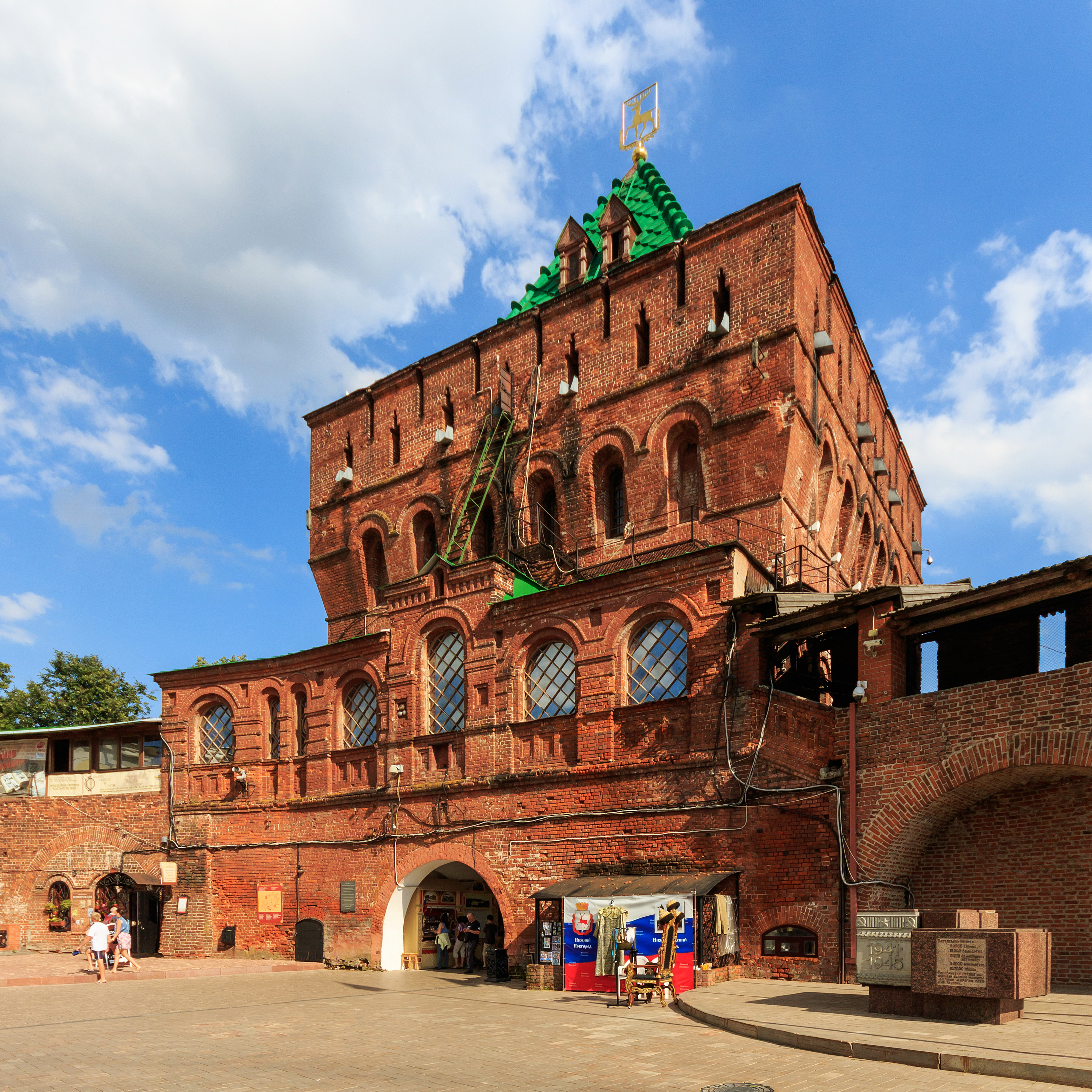 Dmitrievskaya Tower of the Kremlin in Nizhny Novgorod, Russia